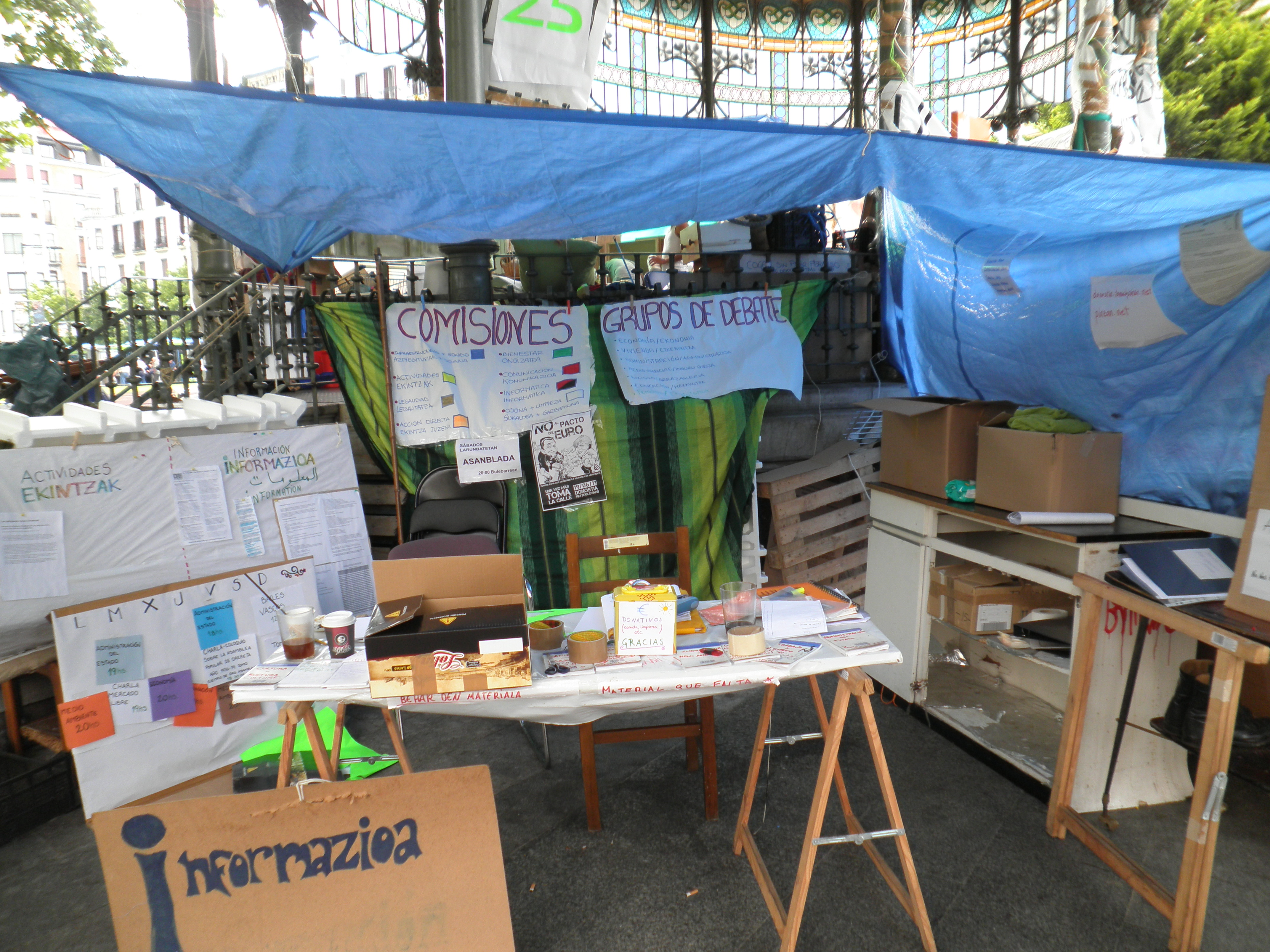 Donostia protests. June 2011.